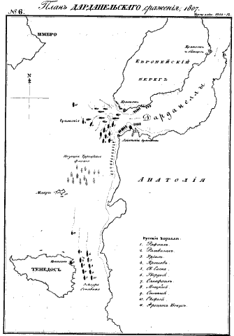 This is map of the Battle of Dardanells betwean russian and turkish navy 10–11 May 1807. The map was illustration in book of russian writer Aleksandr I. Michajlovskij-Danilevskij Opisanie tureckoj vojny v" carstvovanīe imperatora Aleksandra, s" 1806-go do 1812-go goda, po vysočajšemu povelěnīju sočinennoe general-lejtenantom i členom" Voennago Sověta Michajlovskim"-Danilevskim